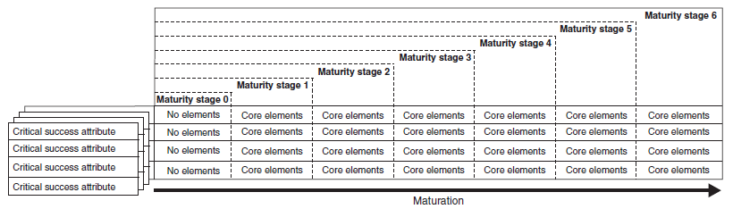 Rough buildup of the Enterprise Architecture Management Maturity Framework (EAMMF).